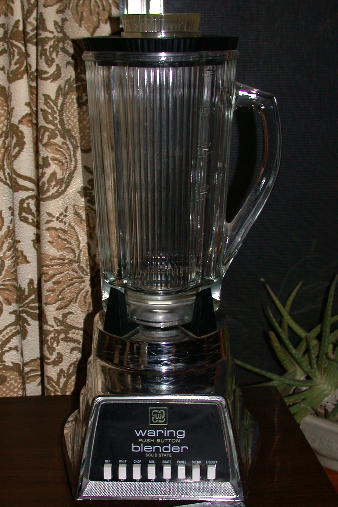 A Waring Blender